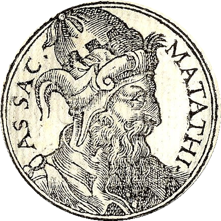 Mattathias